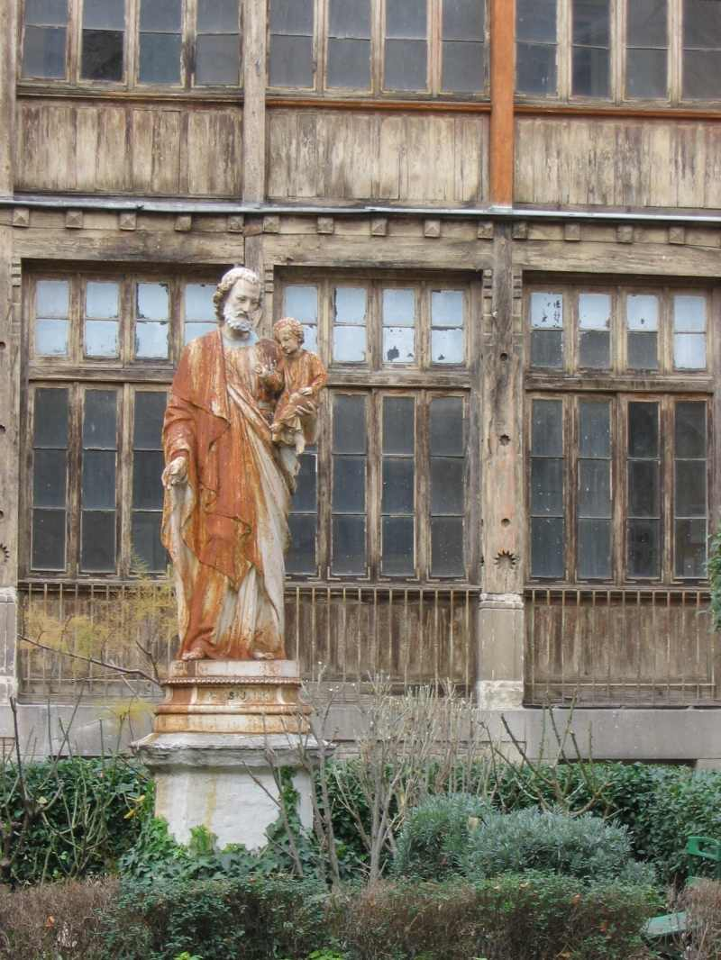 Statue of Saint Joseph at the courtyard of the former Homeopathic Institute and St. Joseph Hospital in Madrid (Spain). Building was projected in 1873 by architect José Segundo de Lema and built from 1873 to 1877.